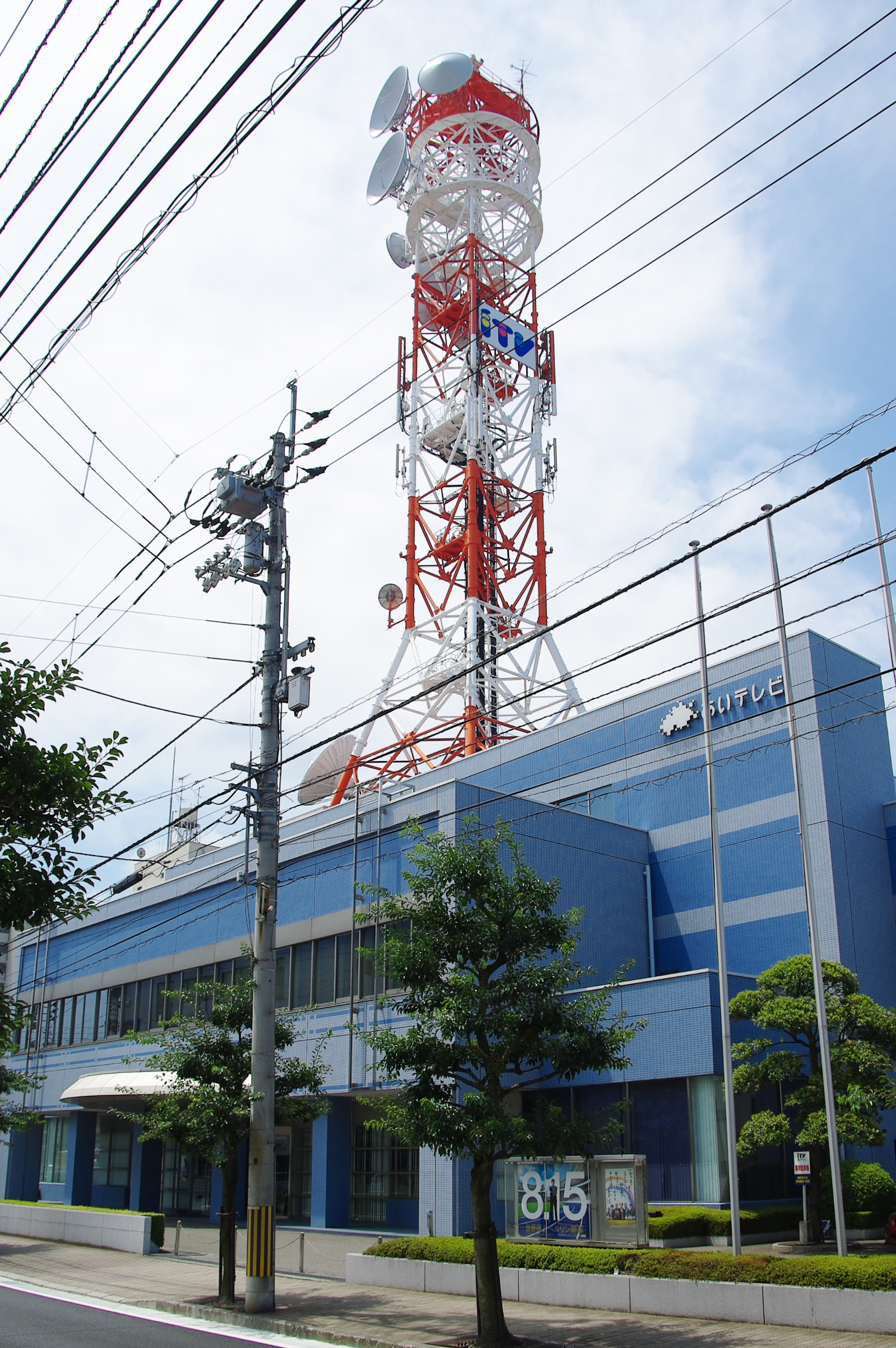 Photograph of the headquarters of i-Television (ITV, Ai Terebi) in Matsuyama, Ehime Prefecture, Japan.